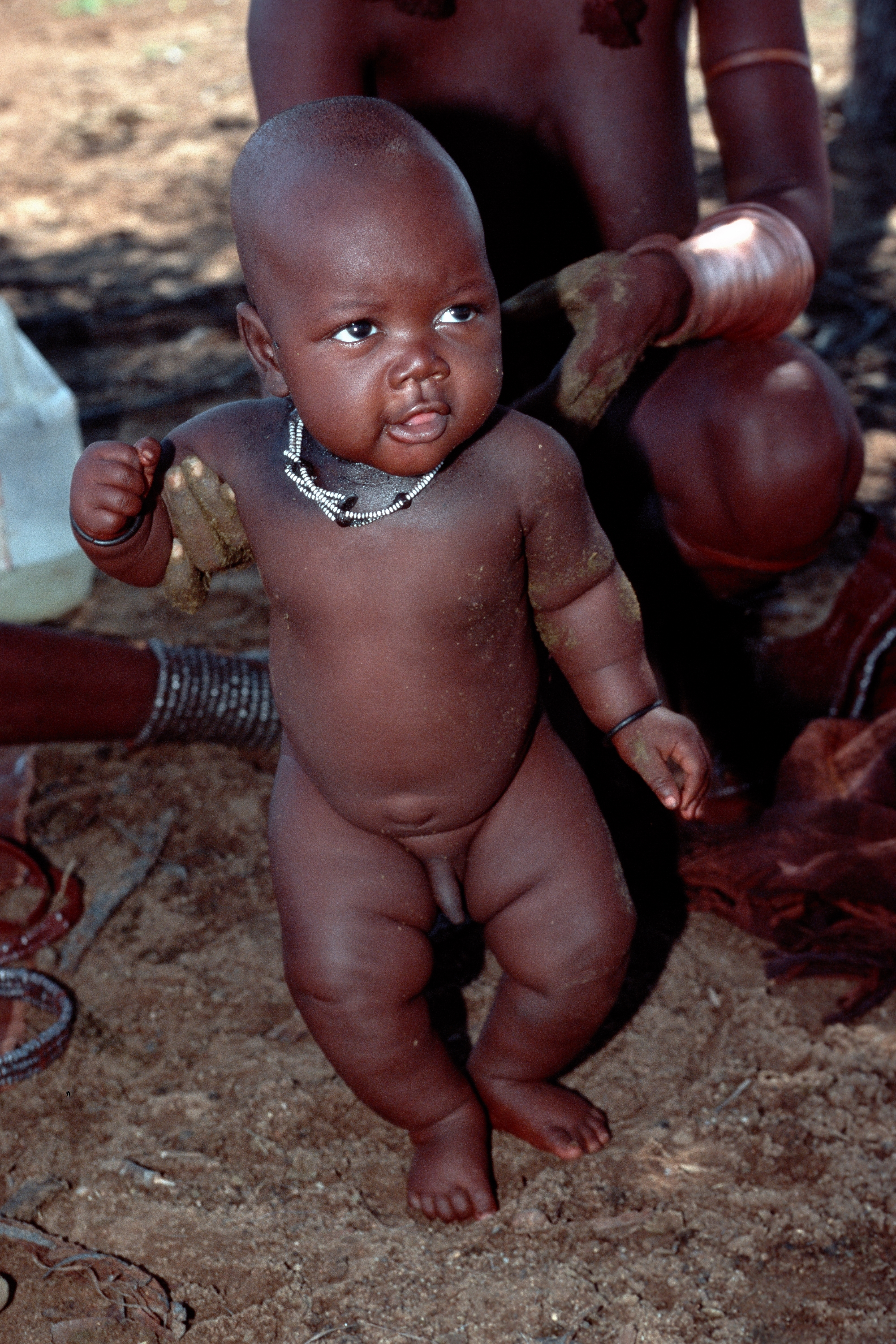 Lucky Himba baby